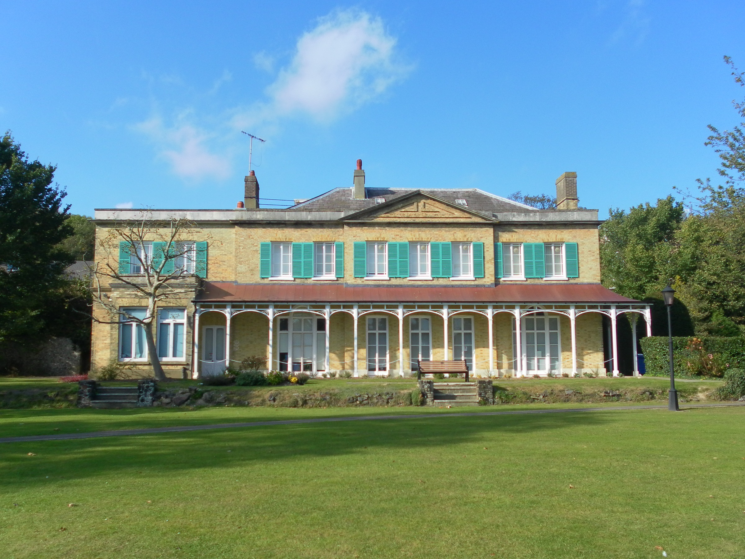 Moulsecoomb Place, Lewes Road, Moulsecoomb, City of Brighton and Hove, England. Photographed after restoration in 2011. Listed at Grade II by English Heritage (NHLE Code 1381668)